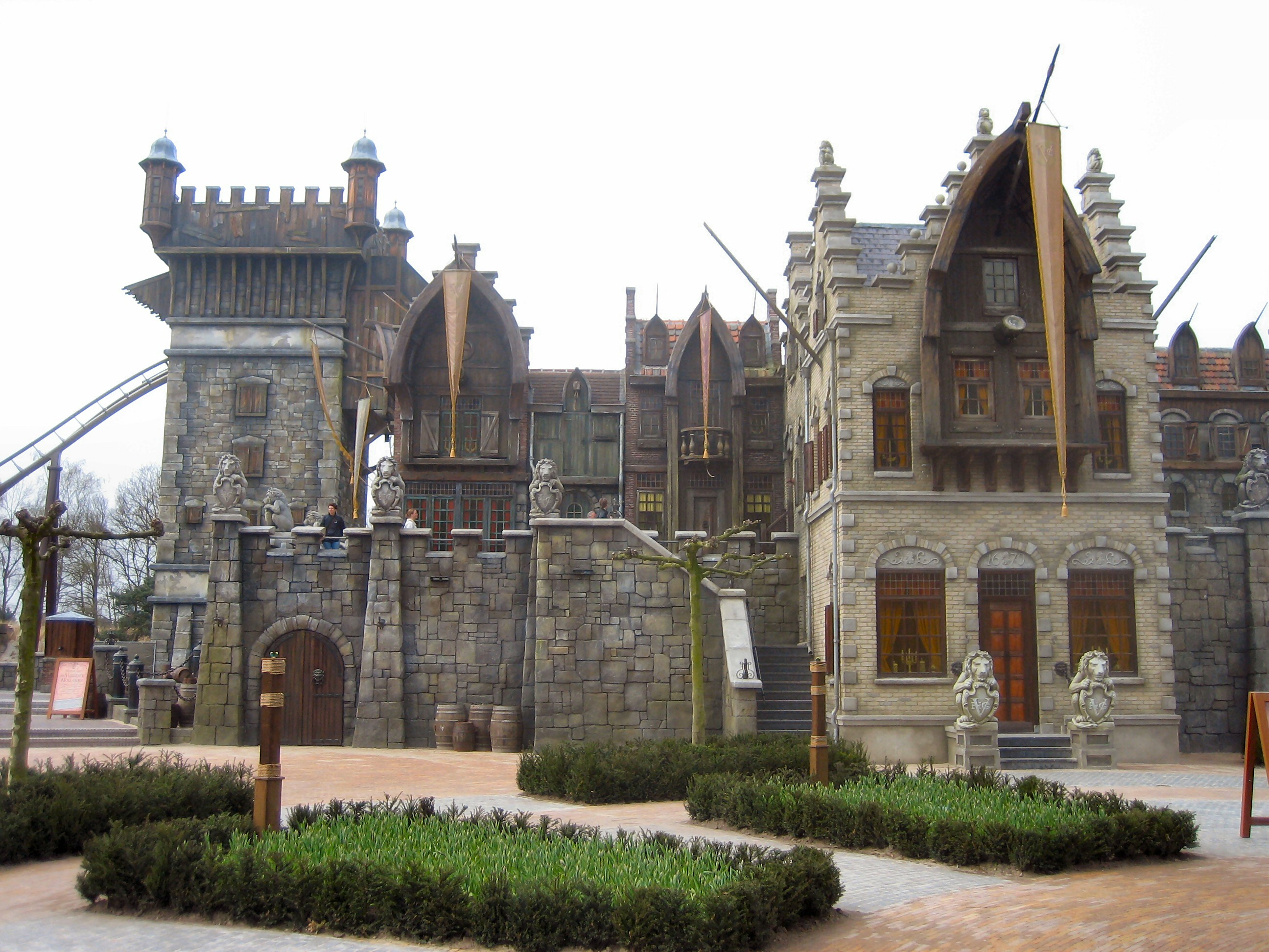 Vliegende Hollander (Flying Dutchman) De Efteling Kaatsheuvel The Netherlands Photo taken by Hullie Sunday 23 April 2006